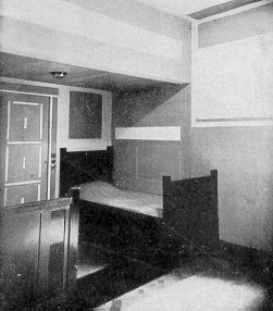 Anonymous. Bedroom. c 1919. Photo. From Bruno Taut. Die neue Wohnung. Die Frau als Schöpferin. Leipzig: Klinkhardt & Biermann, 1924.